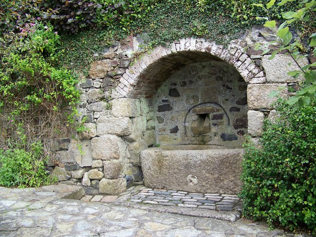 St Mary's Well, Bovey Tracey